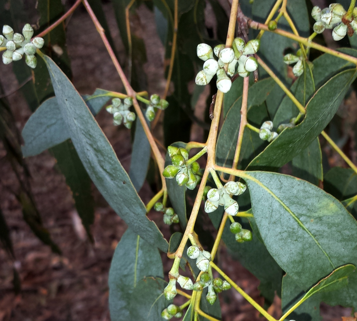 Flower buds of Eucalyptus cephalocarpa in Riddells Creek